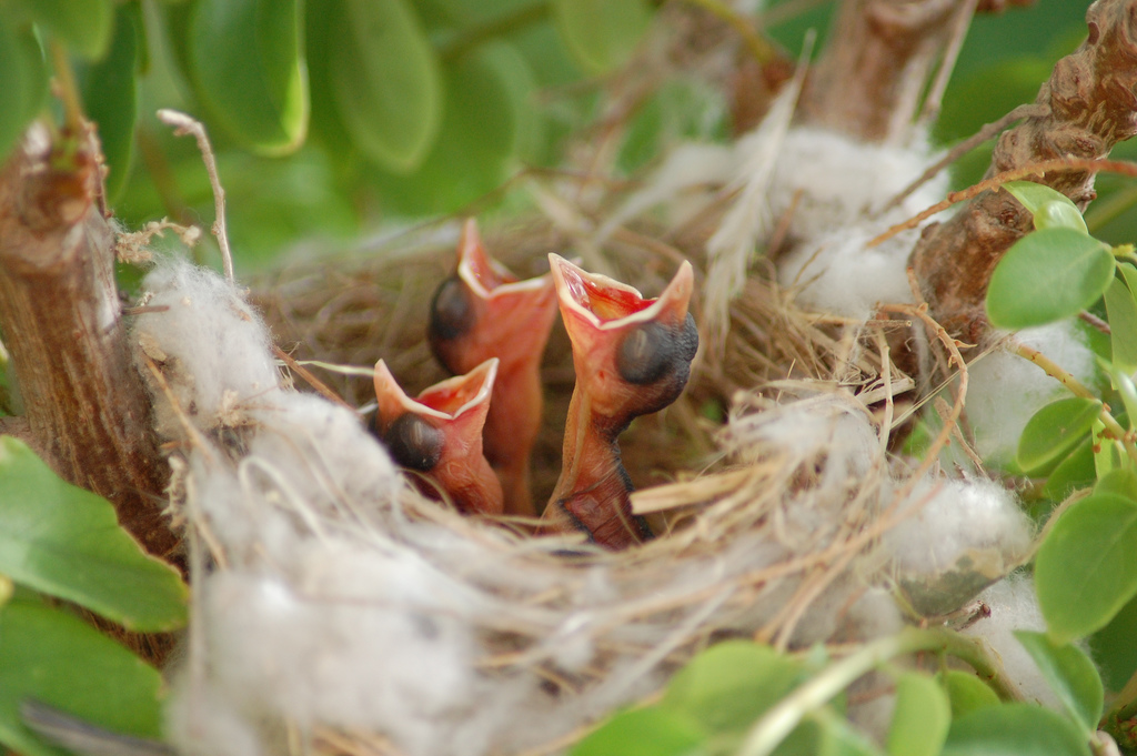 Altricial (helpless) young birds of an unidentified species.